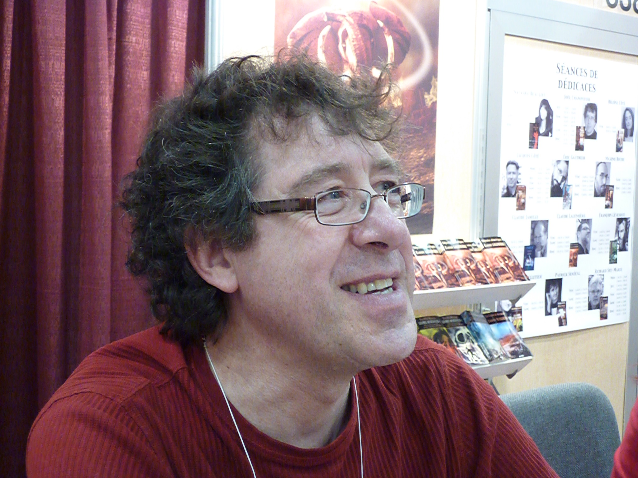 Quebec author Joël Champetier at the Salon international du livre de Québec 2012 (2012 Quebec City international book fair). Photo taken by User:Ewe Aya.